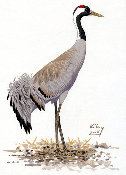 The Common Crane (Grus grus), also known as the Eurasian Crane, is a bird of the family Gruidae, the cranes.